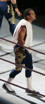 Epico in 2012